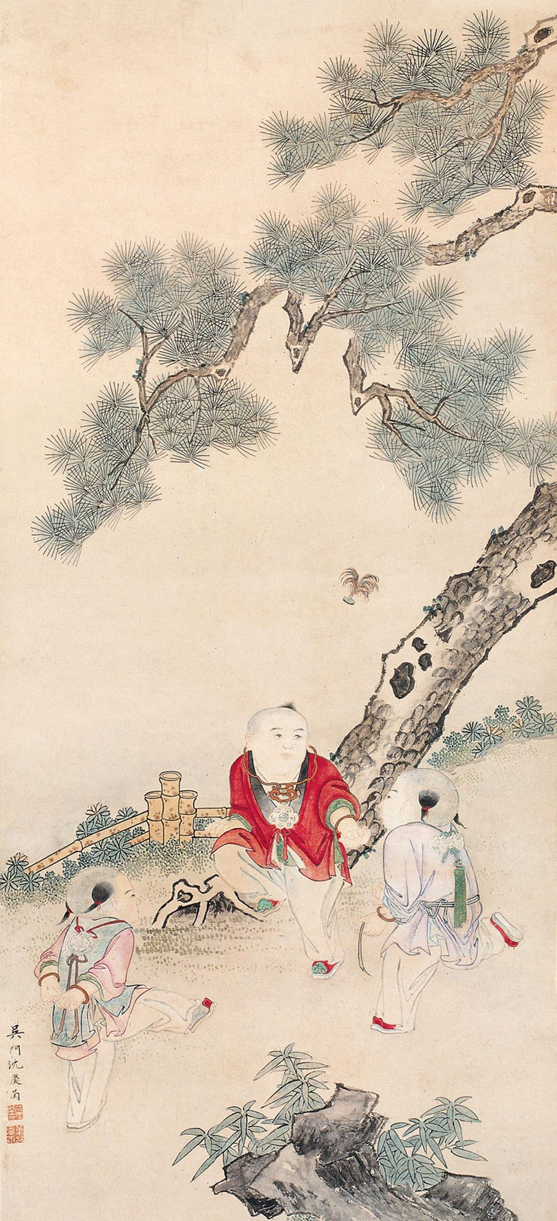 ‘’Children Playing Jianzi, hanging scroll, ink and color on paper, 133x60 cm.